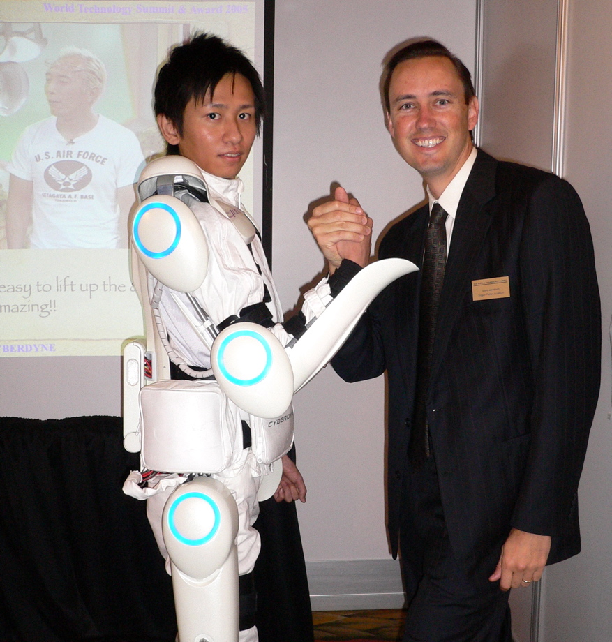 An electrically powered exoskeleton suit currently in development by Tsukuba University of Japan. "Cybernoid" Arm Wrestling The swank HAL (“Hybrid Assistive Limbs”) Cybernoid from Cyberdyne Inc. at the World Technology Summit today. Developed at the University of Tsukuba, here are some of the photo captions from their promotional materials: “Robot suit makes you a superman” “With the Robot suit, we can push objects with big power.” And next to a photo of our friend above carrying a lady like a newlywed couple: “Let’s enjoy the princess holding!!”